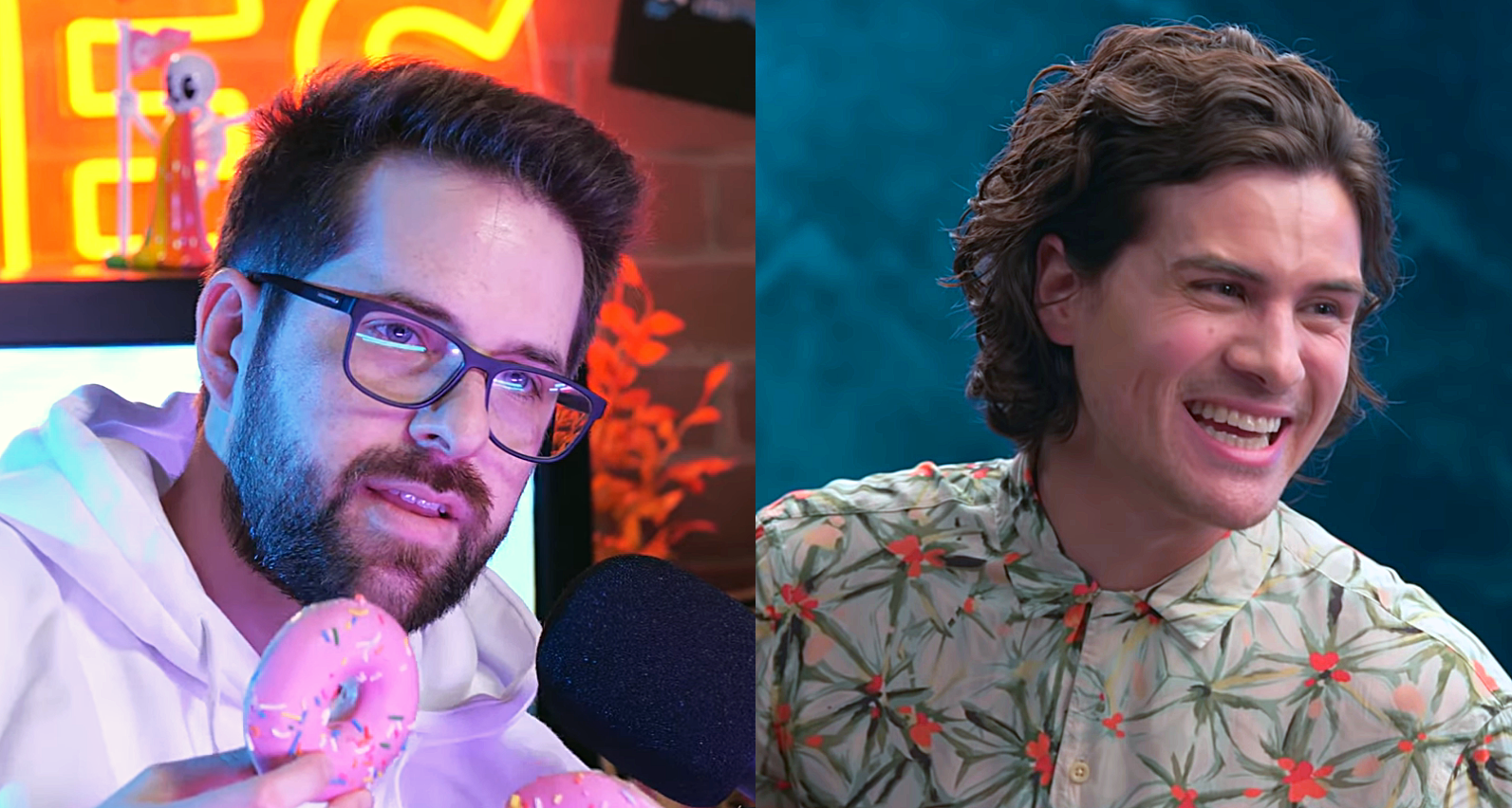 Ian Hecox of Smosh in 2020 (left) and ex-member Anthony Padilla in 2019